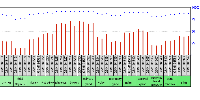 Tissue expression of TMCO4 page 2.